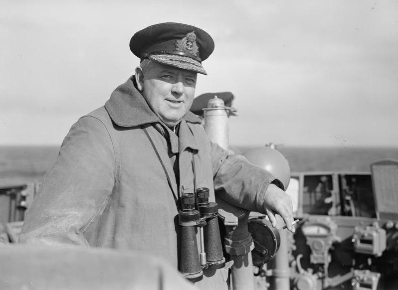 Arrival of Powerful American Task Force To Operate With Home Fleet. 3 and 4 April 1942, on Board HMS Edinburgh, in Mid-atlantic. the Task Force Is Under the Command of Rear Admiral R G Griffen. Rear Admiral S S Bonham Carter, CB, CVO, DSO, Commanding 18th Cruiser Squadron, whose flagship HMS EDINBURGH had the job of welcoming the American Task Force Mid-Atlantic, seen on the bridge of HMS EDINBURGH.